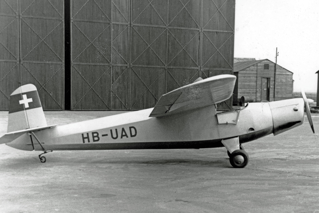 Paga E.114 HB-UAD at Manchester Airport in 1953